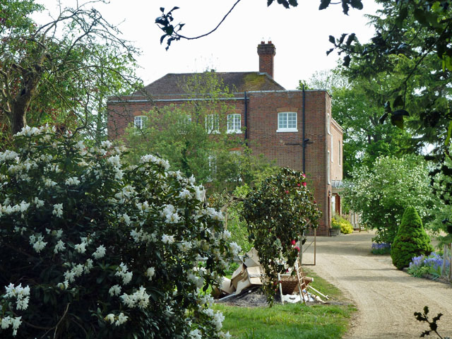 Starborough Castle in 2011